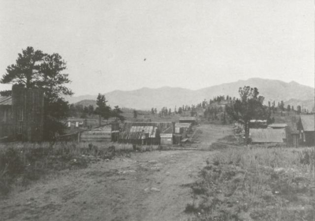 Puma City (later Tarryall), Colorado - 1898. Looking north through Main Street.